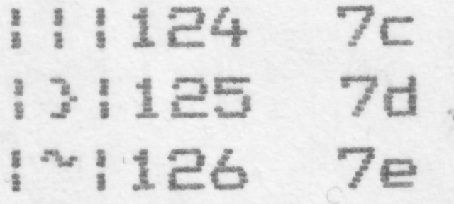 This sample of dot printer output also features a now obsolete ASCII typeface also found somewhere in text mode: U+007C (|) is rendered as ¦ and U+007E (~) is raised.